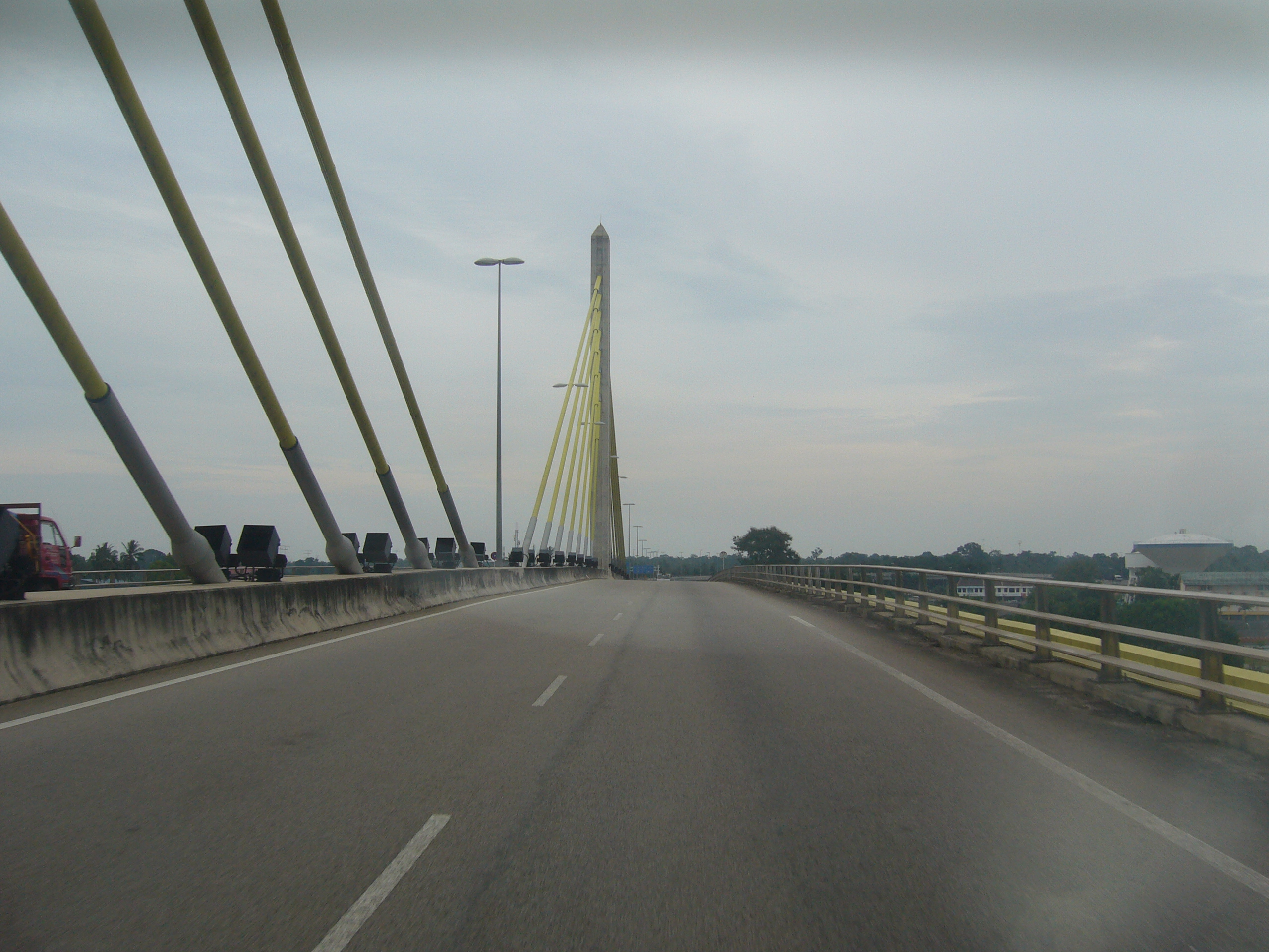 The Muar Second Bridge (Jambatan Kedua Muar).